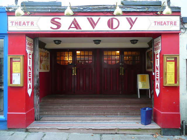 The Savoy Theatre, Monmouth A classic 'fleapit' on Church Street. Rare for a small town to still have a cinema at all!